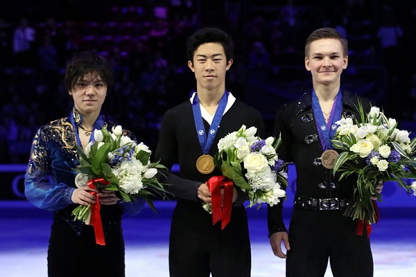 Photos – World Championships 2018 – Men (Medalists)